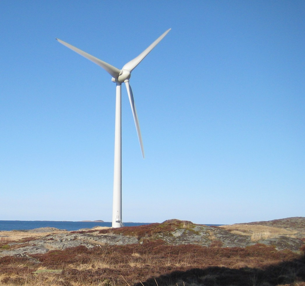 En 2,3MW vindturbin i Valsneset Vindpark i Sør-Trøndelag